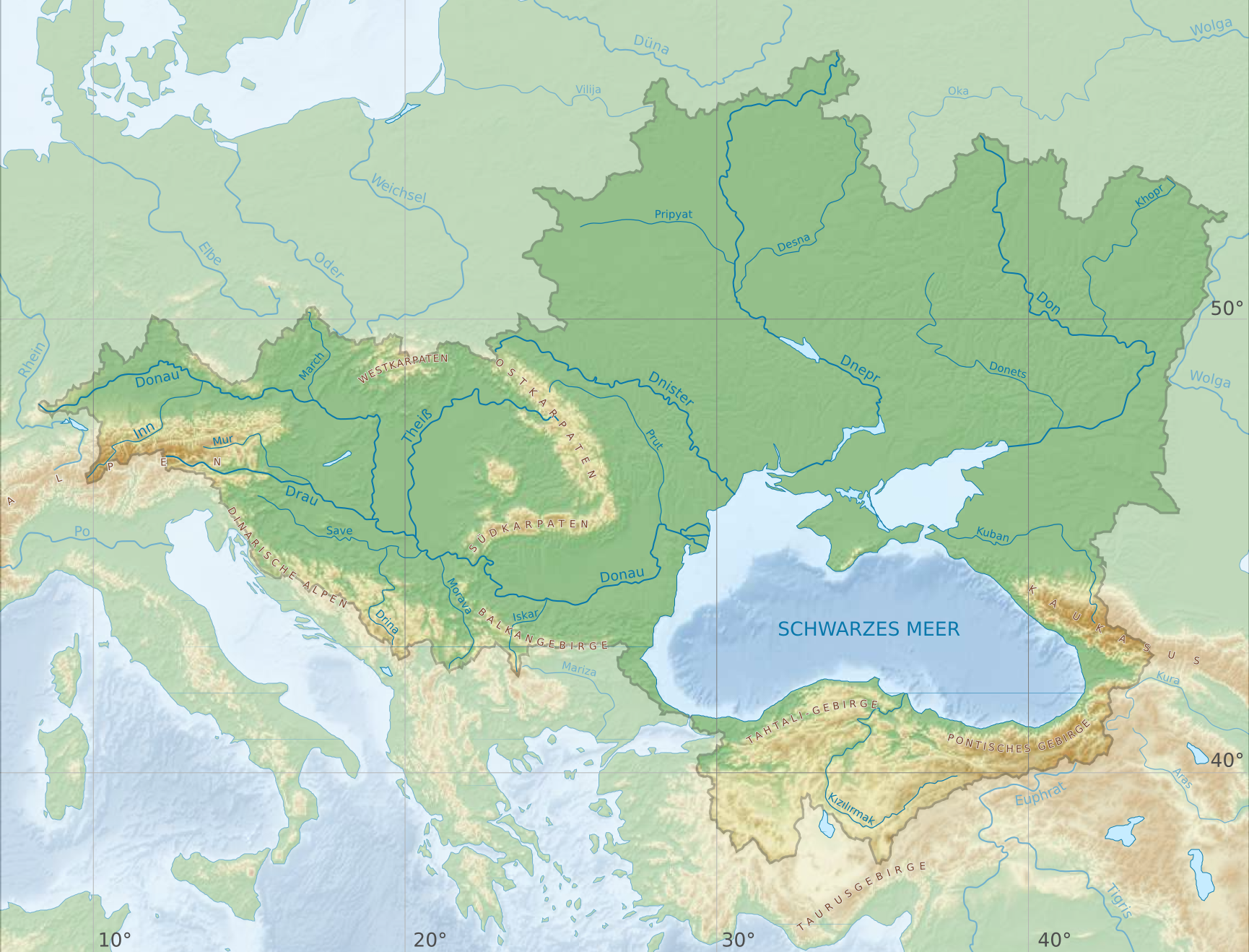 Map of the catchment of the Black Sea, with German labels.